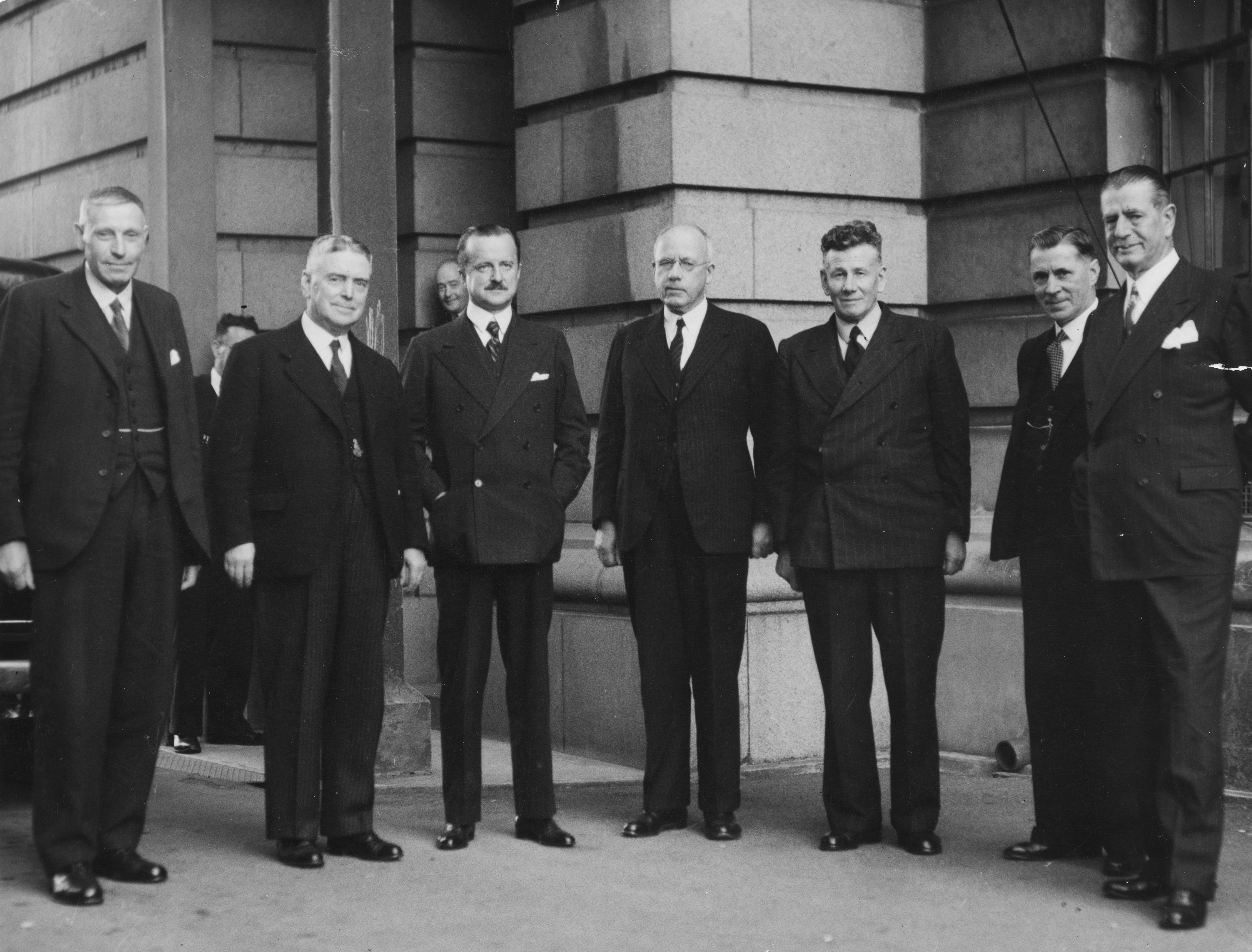 Group portrait photograph taken at a gathering of cabinet ministers, showing from left to right: Hon Adam Hamilton; Hon Walter Nash, Minister of Finance; Hon Duff Cooper; Prime Minister Peter Fraser; Hon Daniel Giles Sullivan, Minister of Supply; Hon Frederick Jones, Minister of Defence; Rt Hon Joseph Gordon Coates.